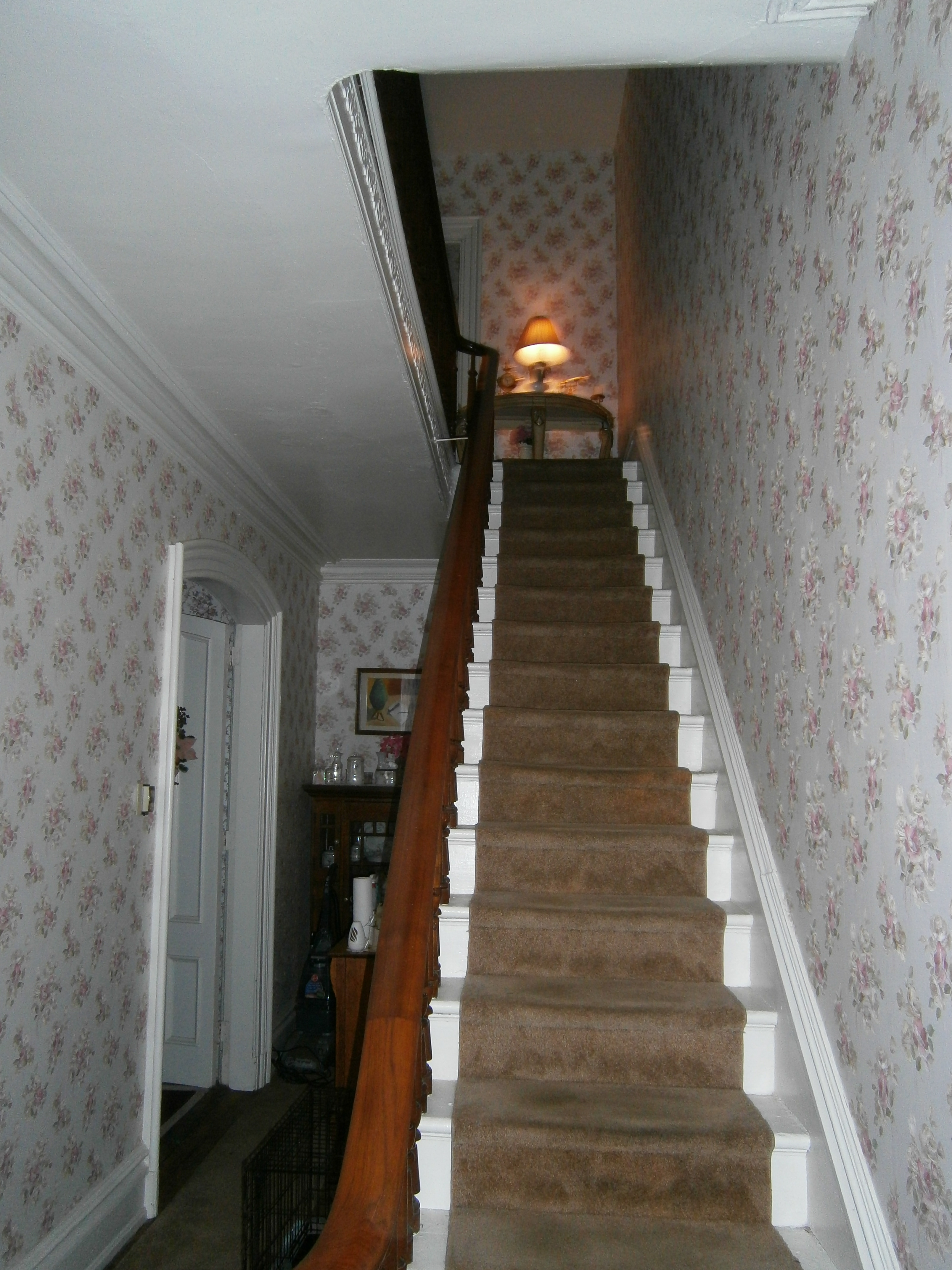 Hale-Whitney Mansion in Bayonne, New Jersey is NRHP site built in mid 19th century